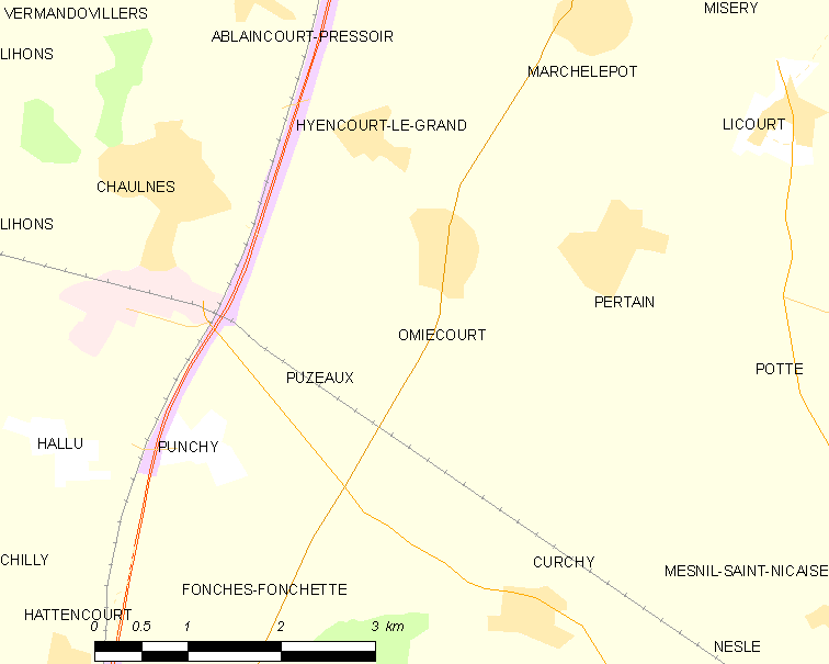 Map of French municipality Omiécourt